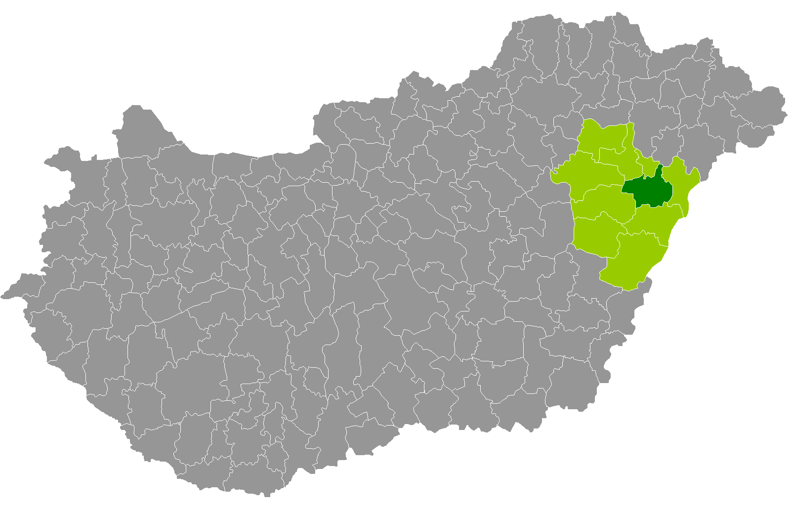 Location of Debrecen District, Hajdú-Bihar, Hungary